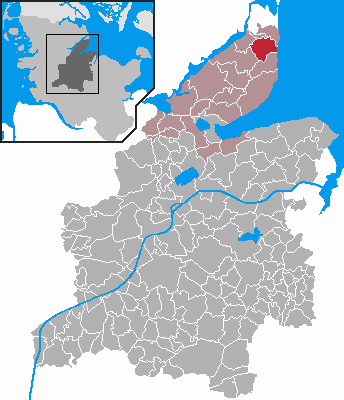 Locator maps of municipalities in Schleswig-Holstein - District Rendsburg-Eckernförde